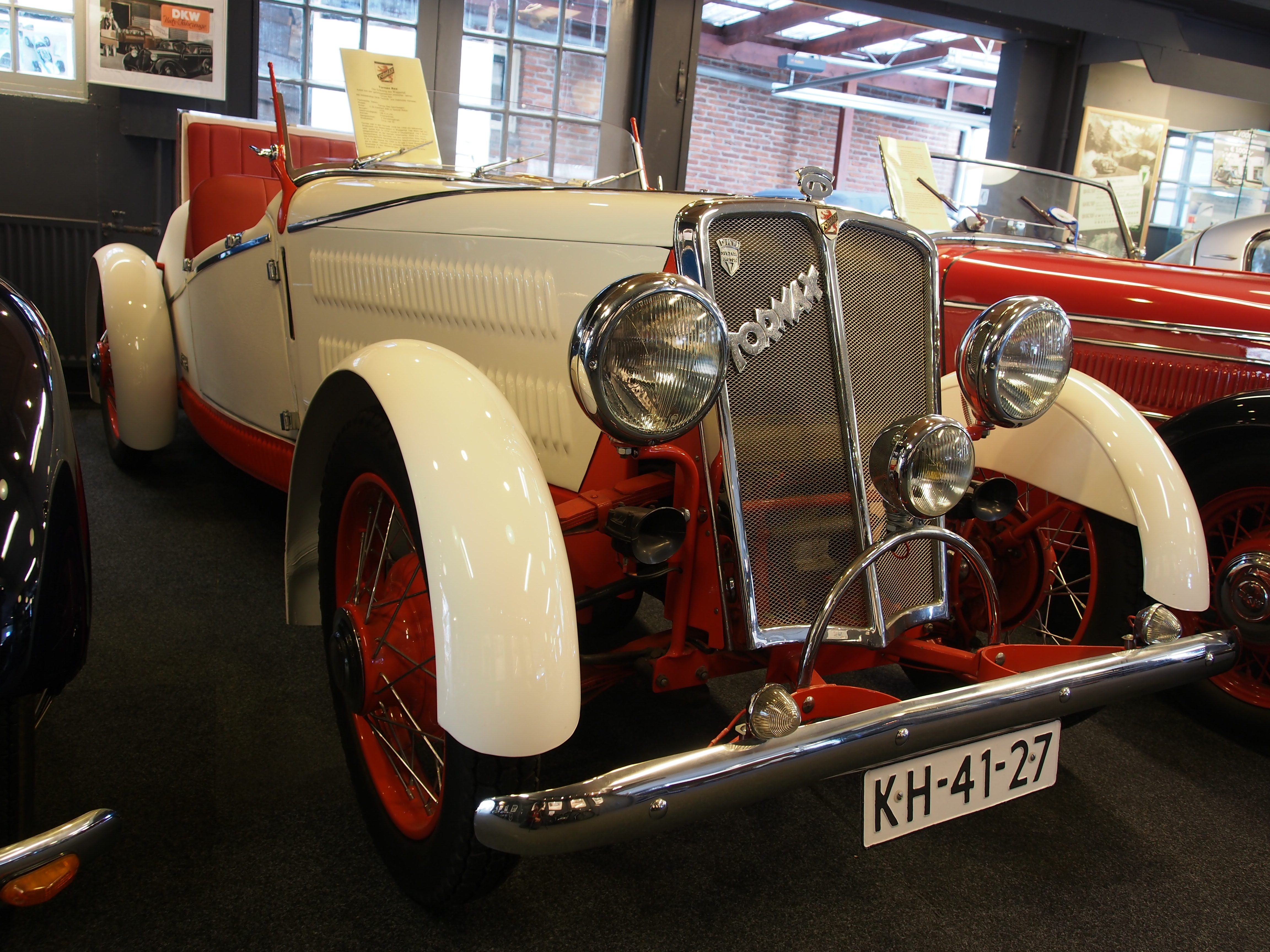 Photographed in the Auto-Union Museum in Bergen, The Netherlands.